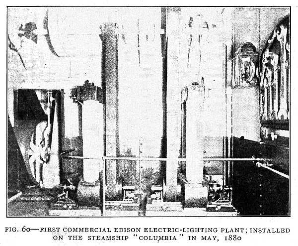 This is a photograph of the SS Columbia's Edison Dynamos. They were used from 1880 to 1895 and were the first ever used commercially and the first ever used onboard a ship.